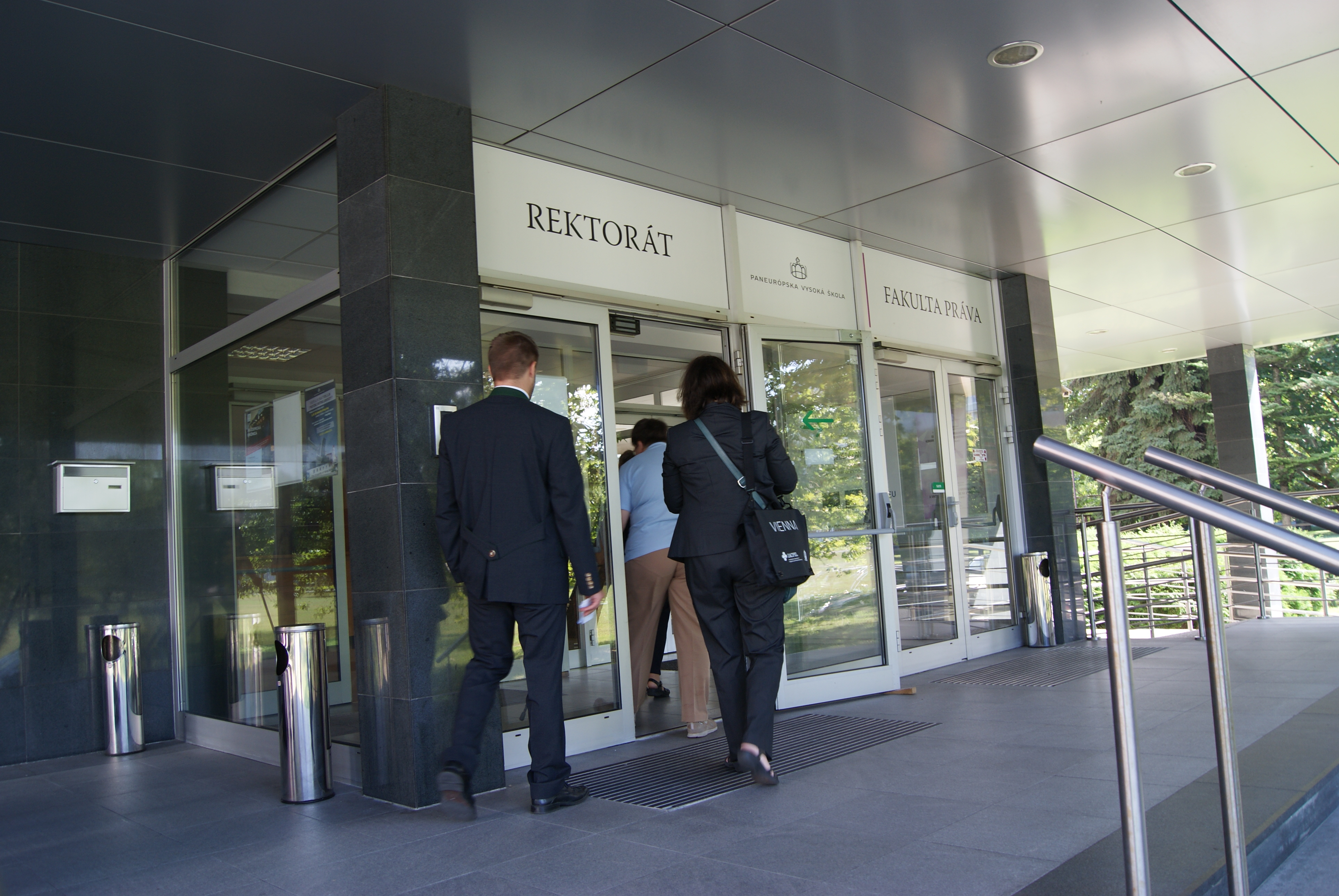 Pan-European University, Bratislava, Slovakia.